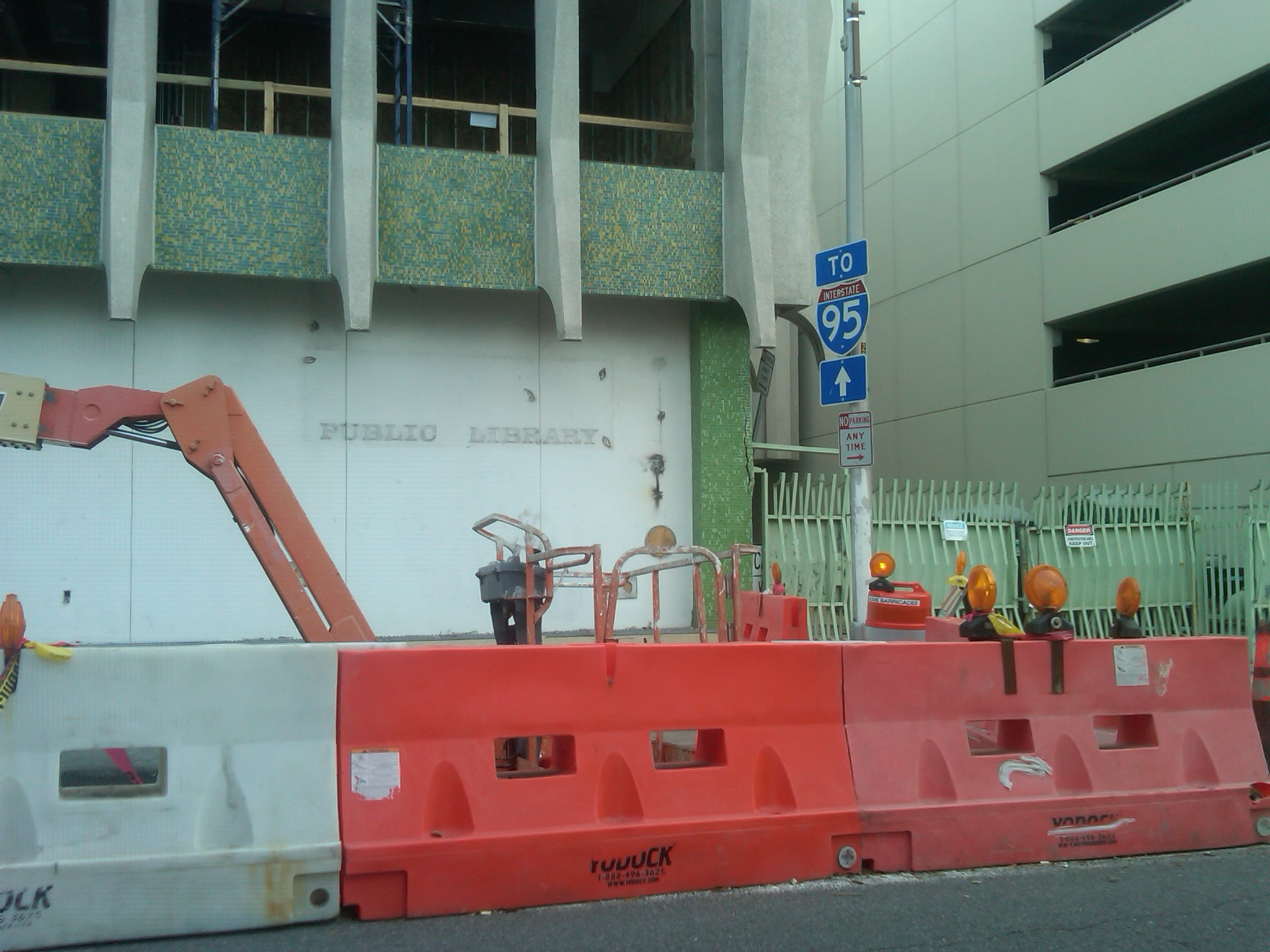 Construction on the Haydon Burns Library in 2014, Downtown Jacksonville, Florida. Photo by Anthony M. Inswasty